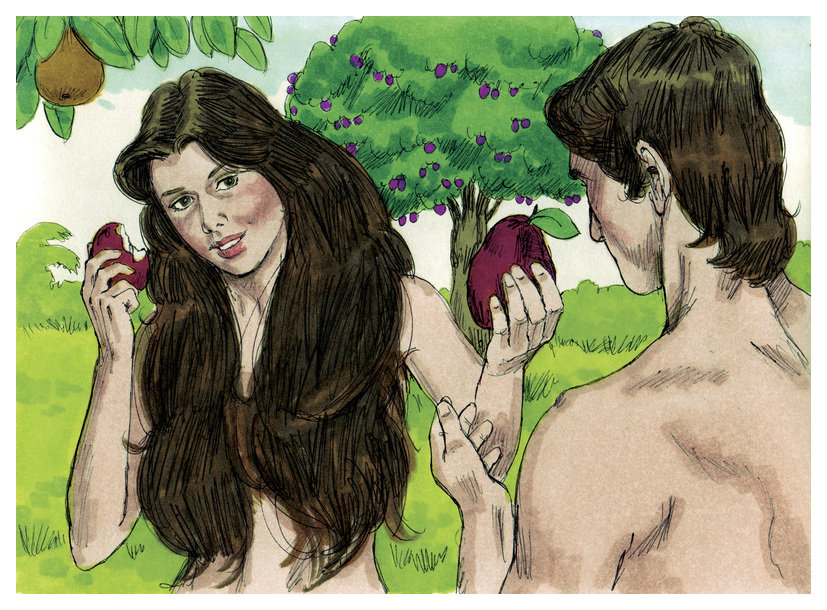 Biblical illustration of Book of Genesis Chapter 3